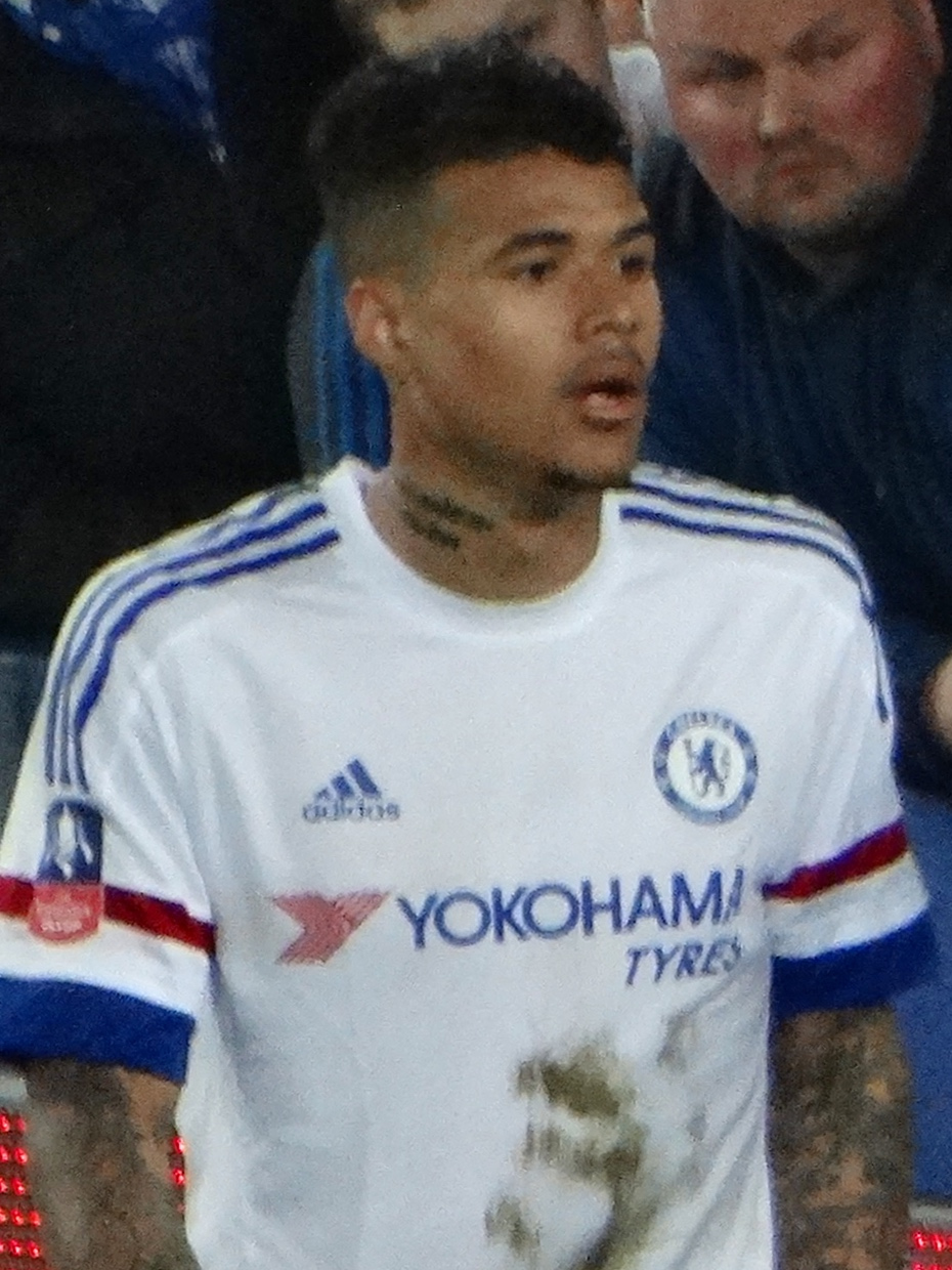 Kenedy playing for Chelsea in FA Cup away match against Everton on 12 March 2016